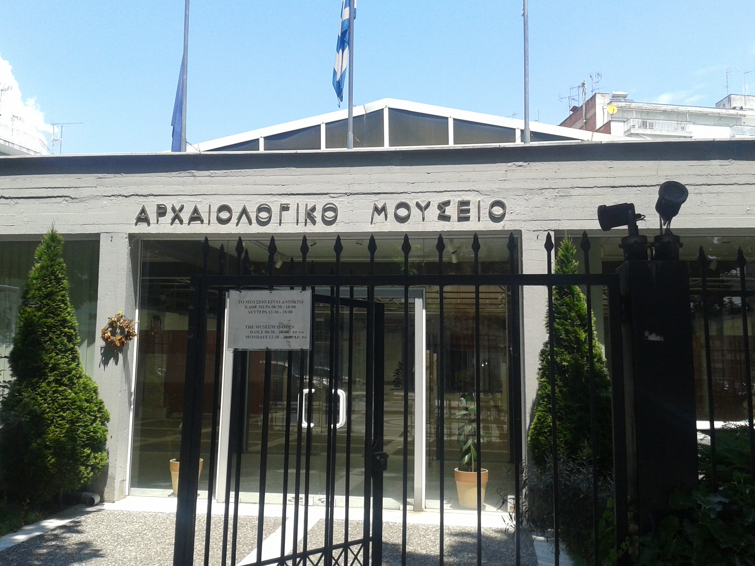 Archaeological Museum of Drama View